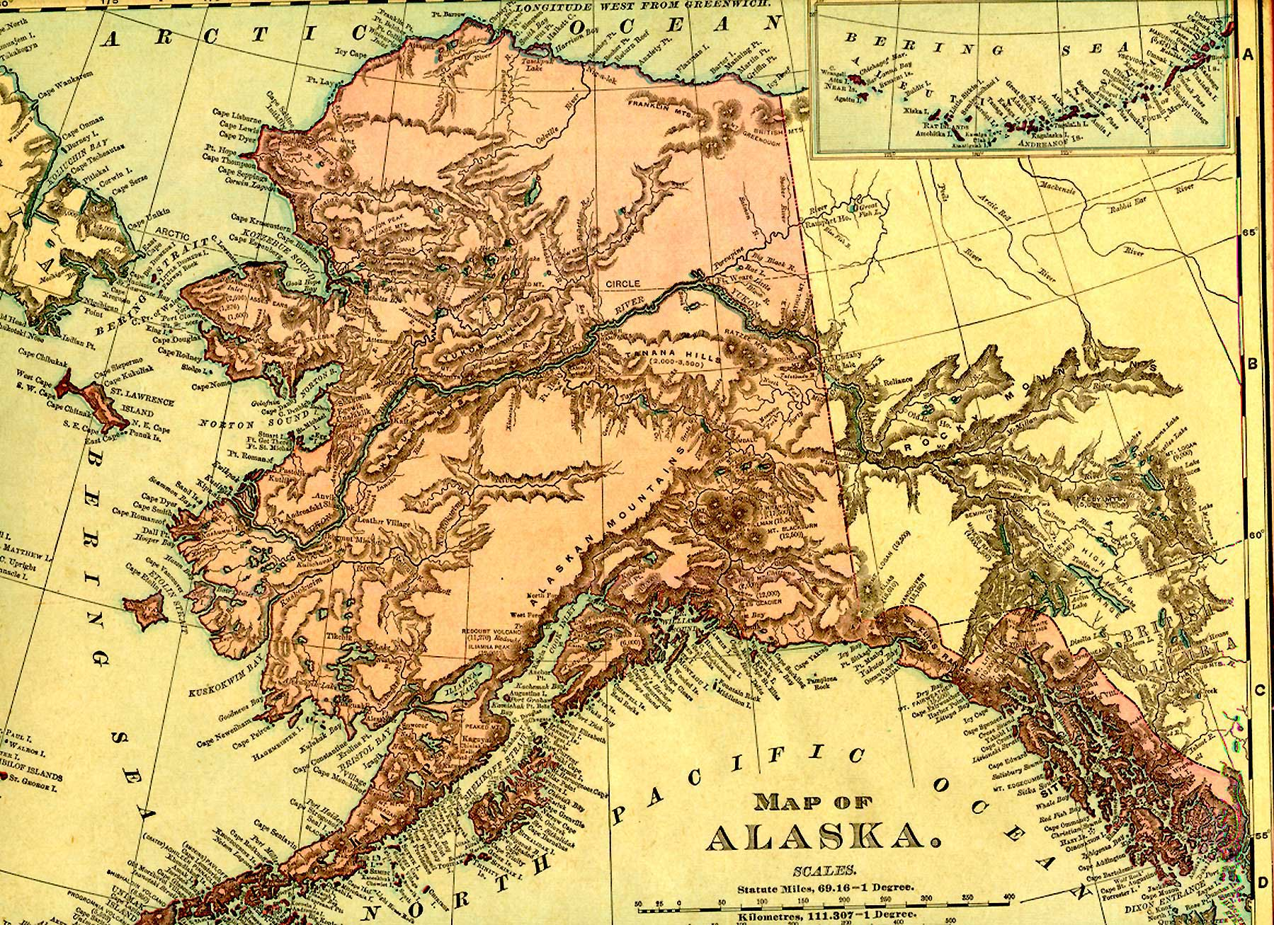 Rand McNally, The New 11 x 14 Atlas of the World